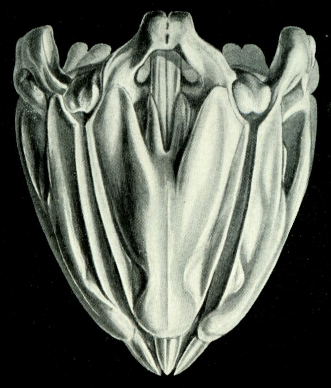 Lanterne d'Aristote de Sphaerechinus granularis.